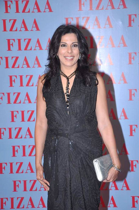 Pooja bedi fizaa store launch